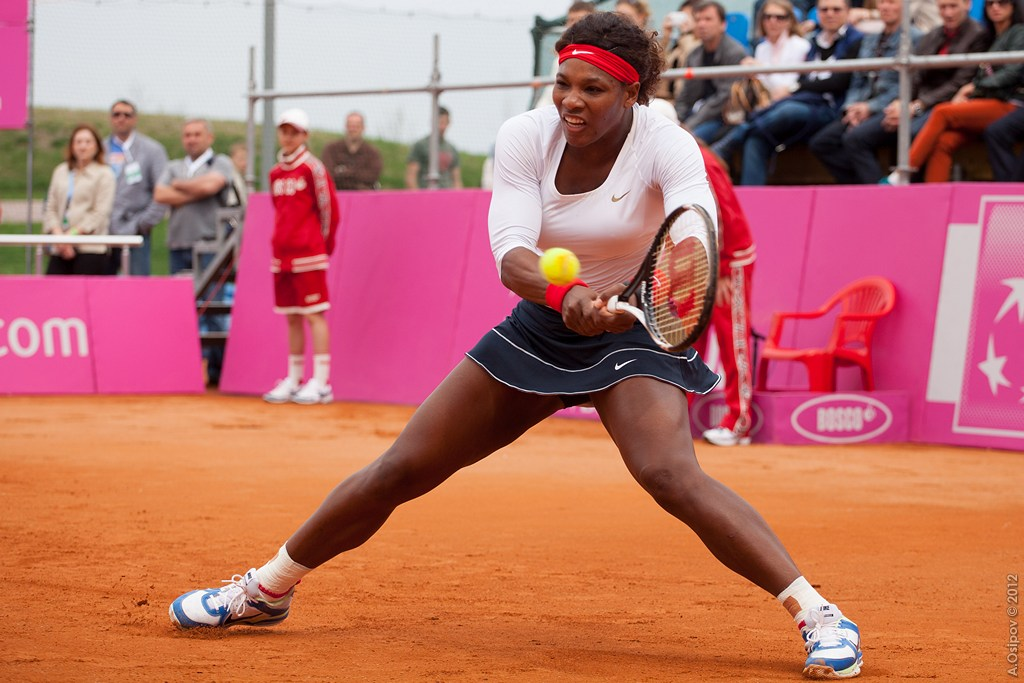 Serena Williams